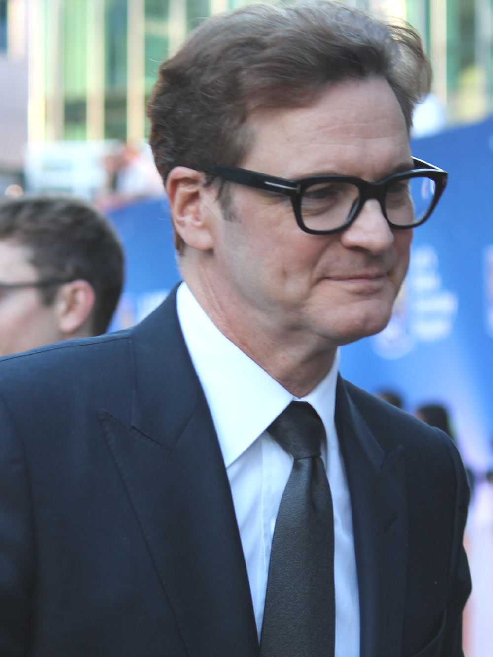 Colin Firth at 2016 Toronto International Film Festival for the film Loving - #TIFF16 With Will Firth his sonin the faded background.